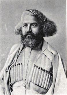 Caucasus, Gourian Prince & Russian Coachman